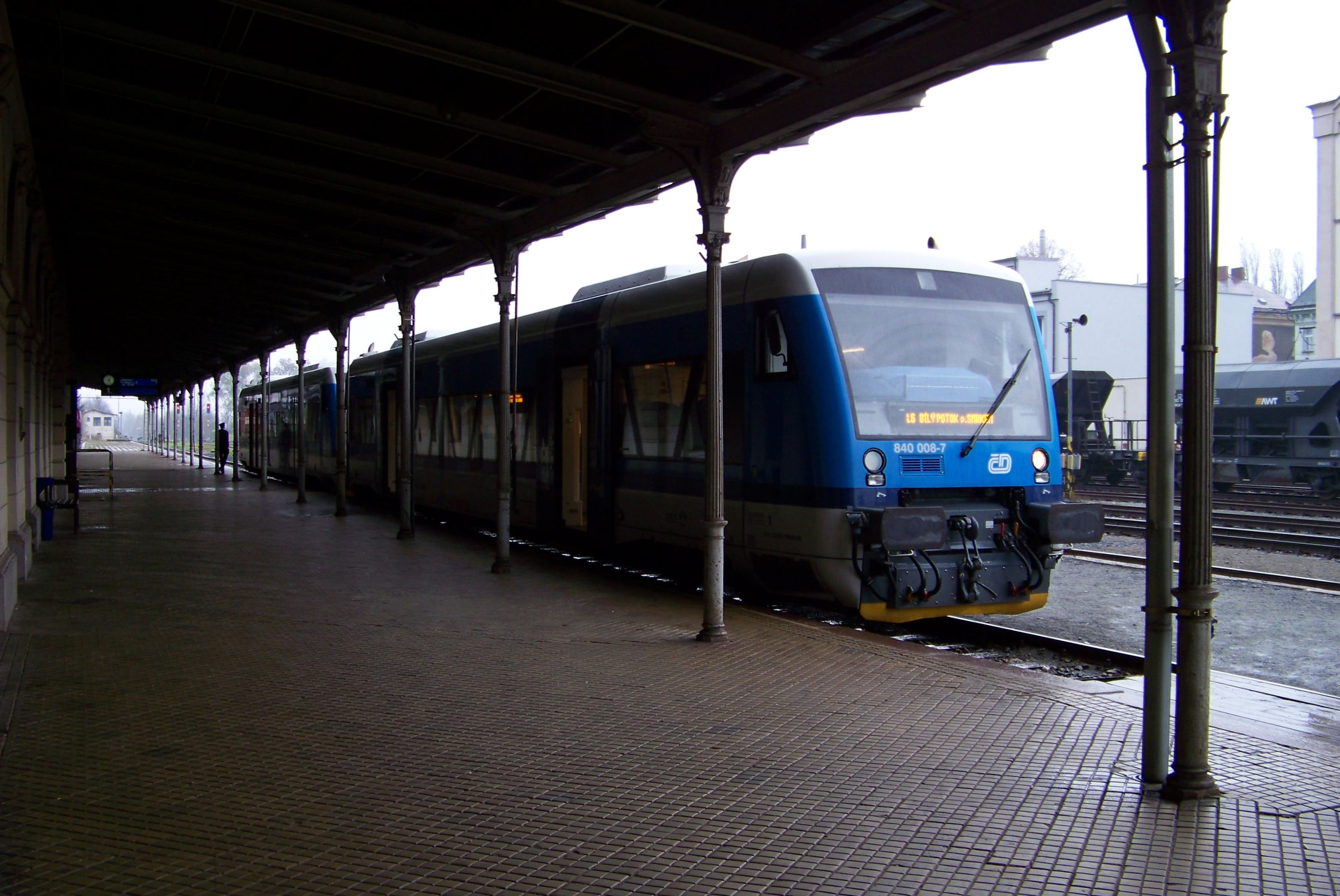 Liberec III-Jeřáb, Liberec District, Liberec Region, Czech Republic. Train station Liberec, platform 1, a diesel unit.